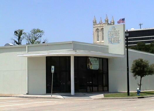 The Ensemble Theatre Building in Houston, Texas.